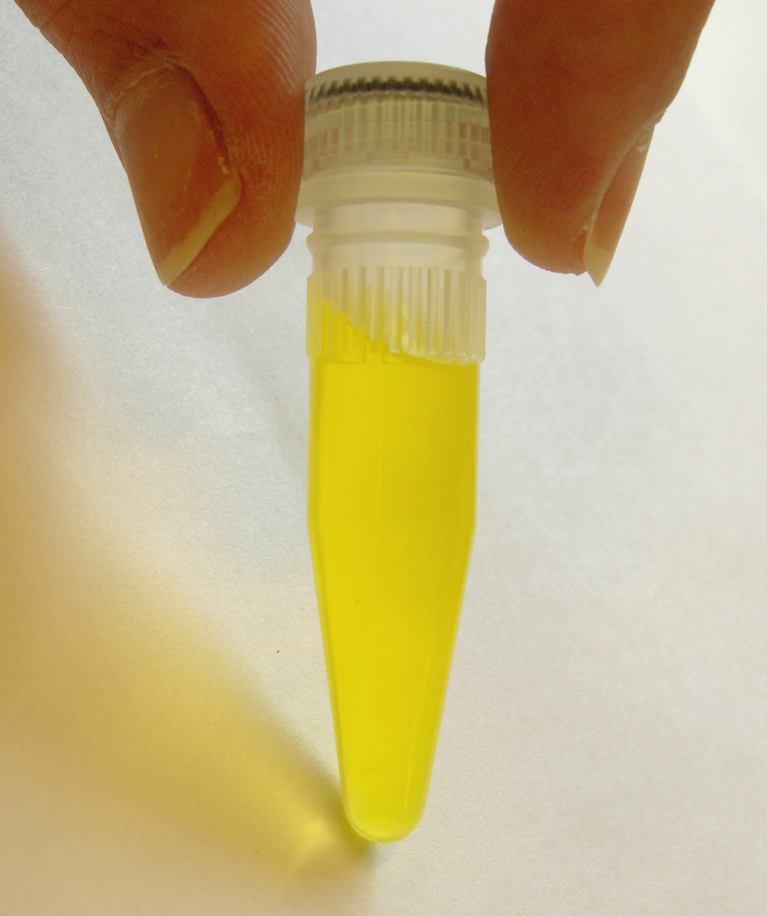 One milliliter of (approximately) 0.1 mg/mL of riboflavin in dimethylsulfoxide (DMSO) in a screw-cap tube.